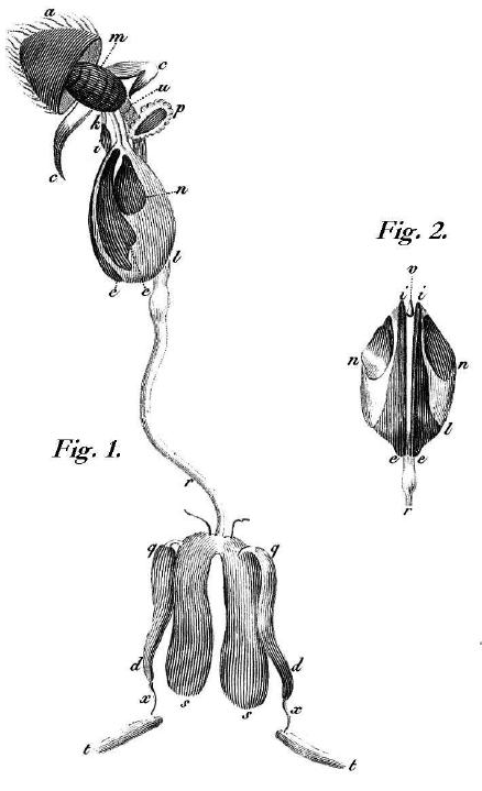 Drone Organs - Francois Huber